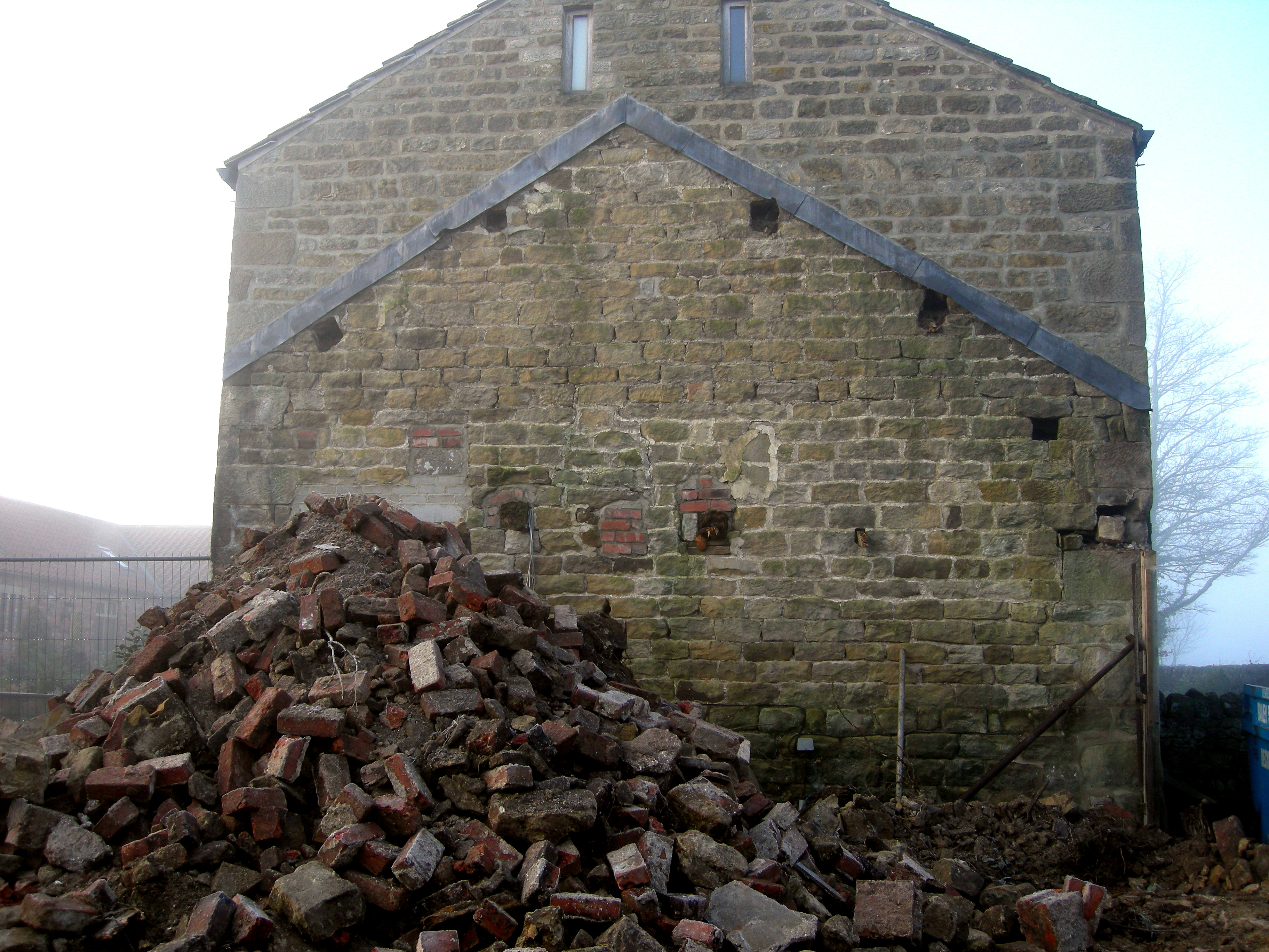 Remains of demolished wheelhouse, gin-gang or horse engine house, probably used for threshing. At the old Hudson's barn (now Willow Farm), at Burn Bridge, near Harrogate, North Yorkshire, England. This gin gang was demolished as of November 2010, due to disrepair. It was understood that it was to be rebuilt to a different plan as domestic accommodation, using the same stones. Photographed in November fog.